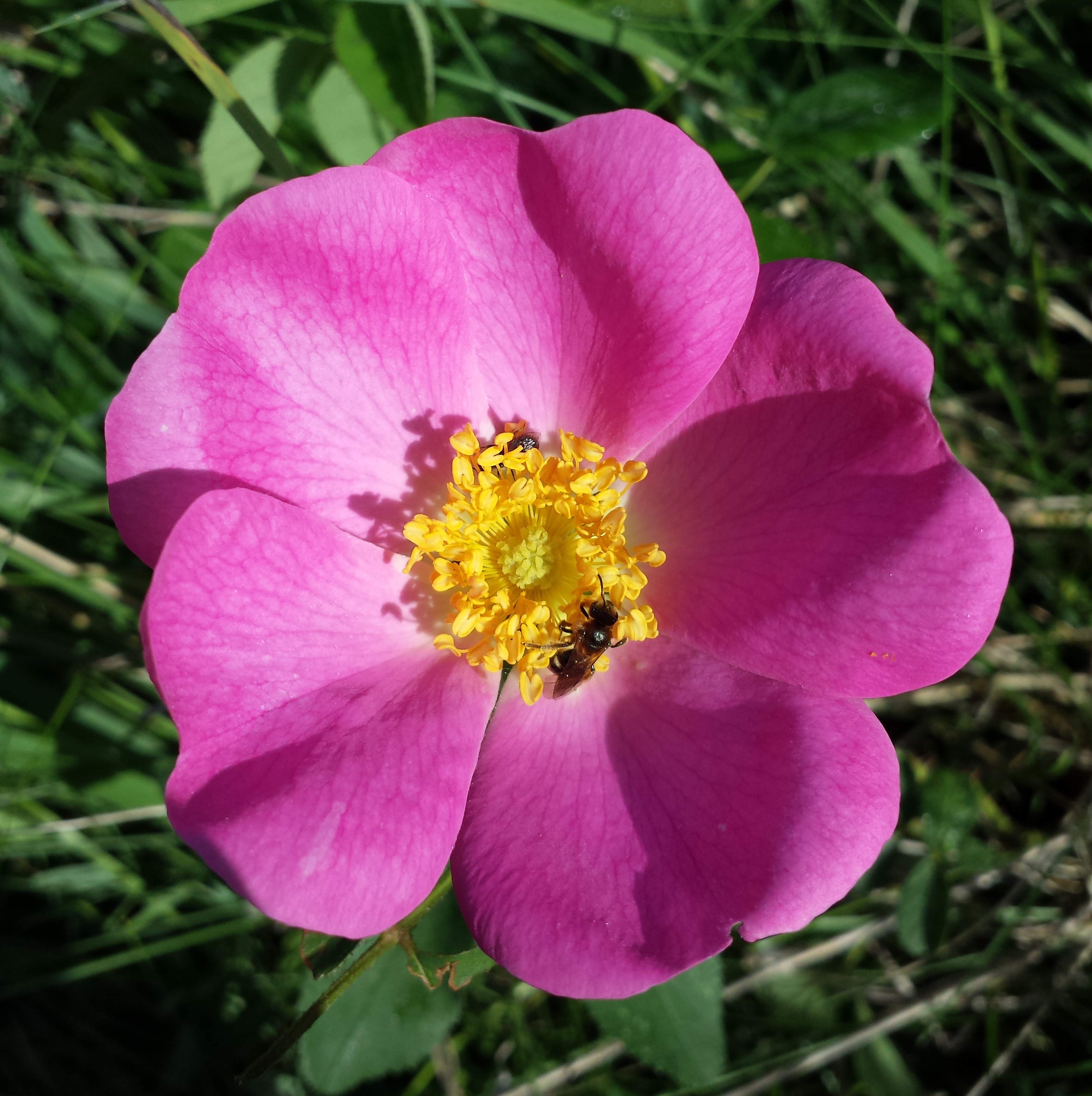 Flower Taxonym: Rosa gallica ss Fischer et al. EfÖLS 2008 ISBN 978-3-85474-187-9 Location: semi-dry grassland to the Northeast of Herzogbirbaum, district Korneuburg, Lower Austria - ca. 250 m a.s.l. Habitat: semi-dry grassland